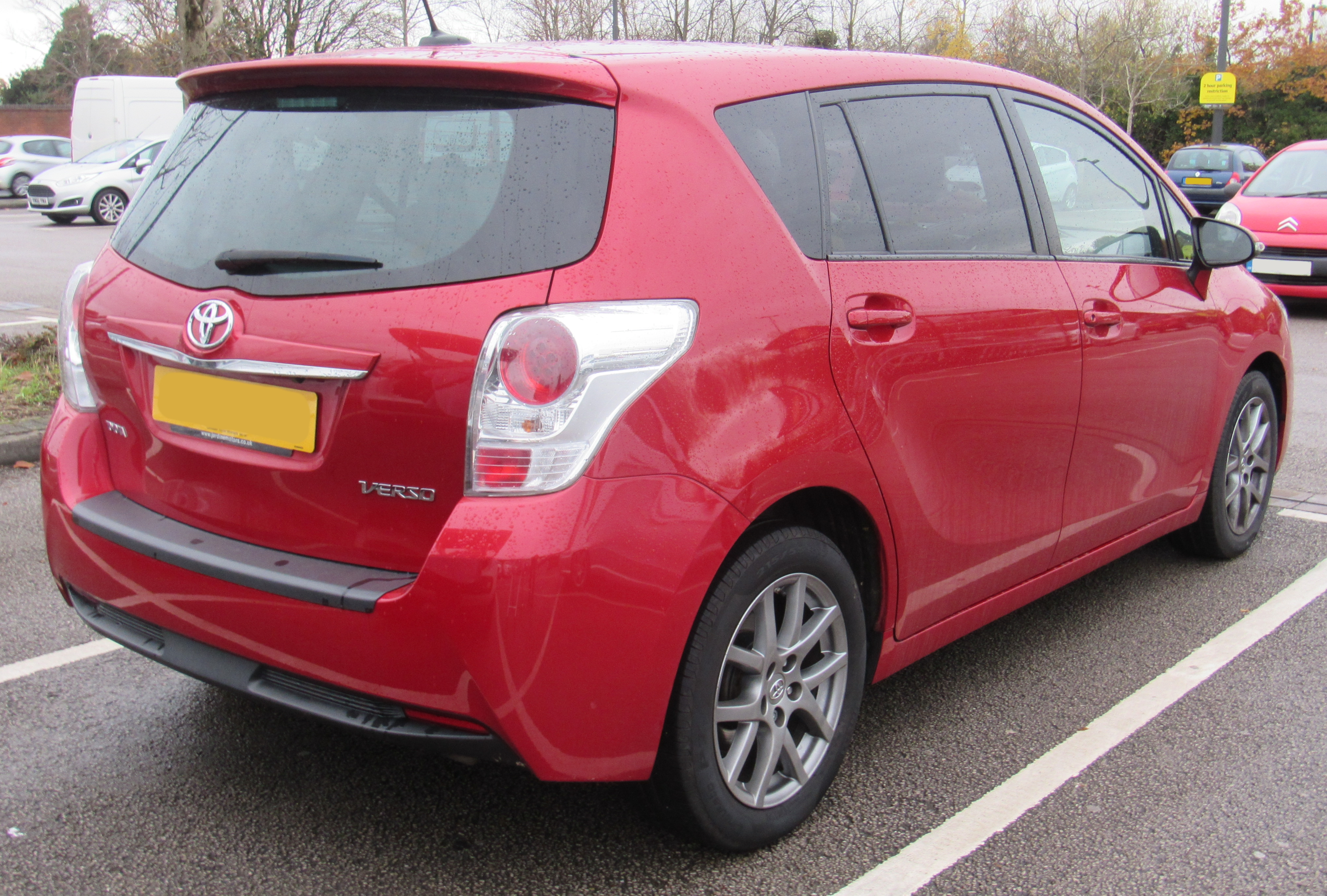 2014 Toyota Verso Excel D-4d 1.6 facelift Rear Taken in Warwick